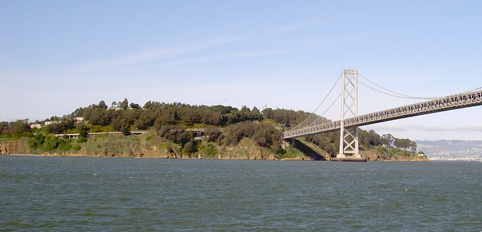 Yerba Buena Island in San Francisco Bay, California, USA (also showing part of the San Francisco – Oakland Bay Bridge)